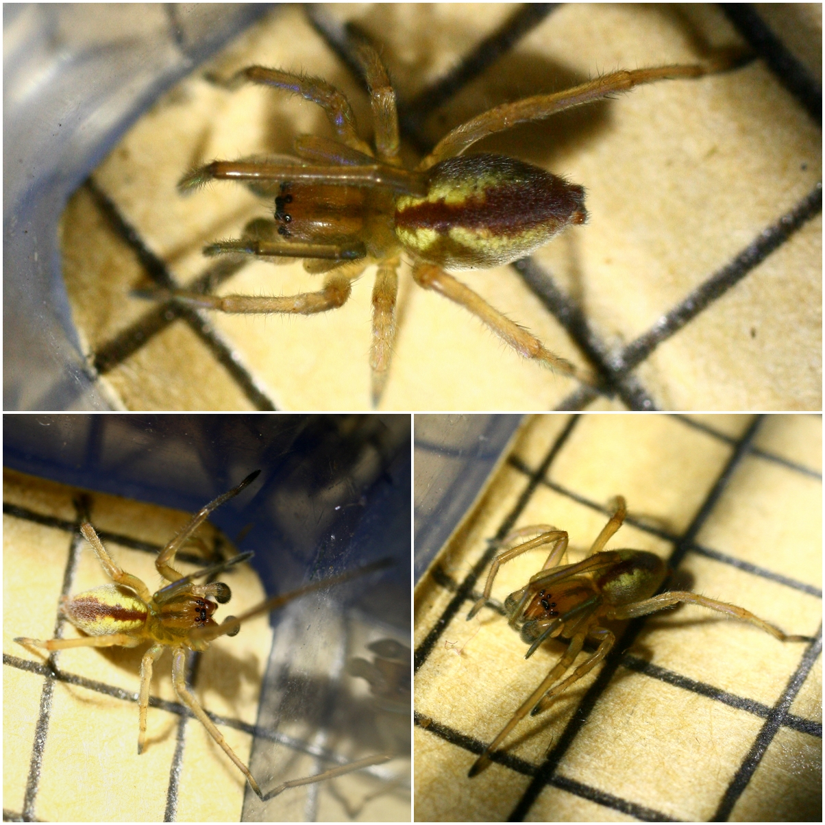 Cheiracanthium erraticum (Miturgidae). From heath, Bricket Wood Common, Hertfordshire, England, 17th April 2011.